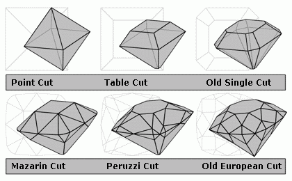 A diagram of old diamond cuts showing the evolution from the most primitive (point cut) to the most advanced pre-Tolkowsky cut (old European).